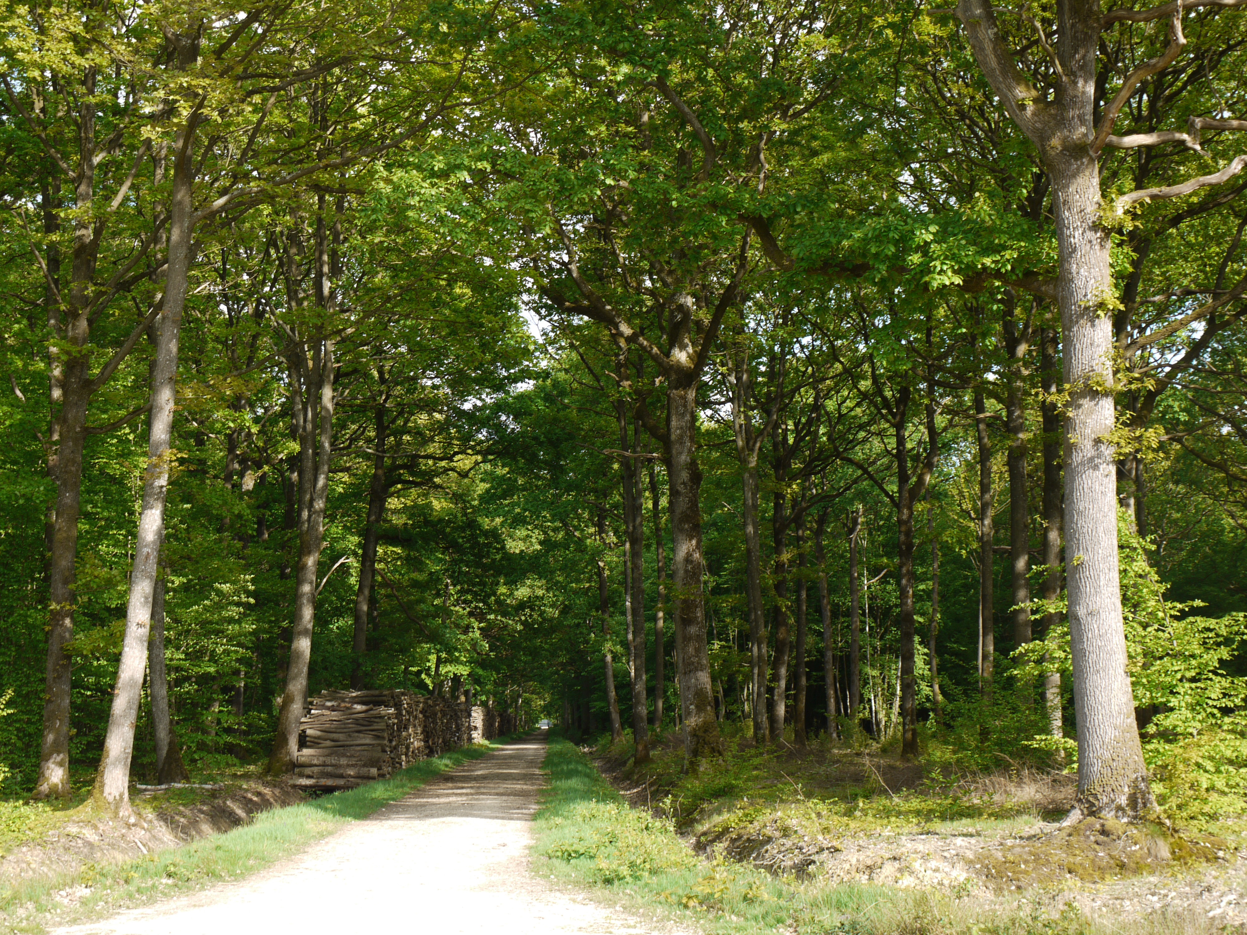 Foret de Rambouillet, Yvelines, France